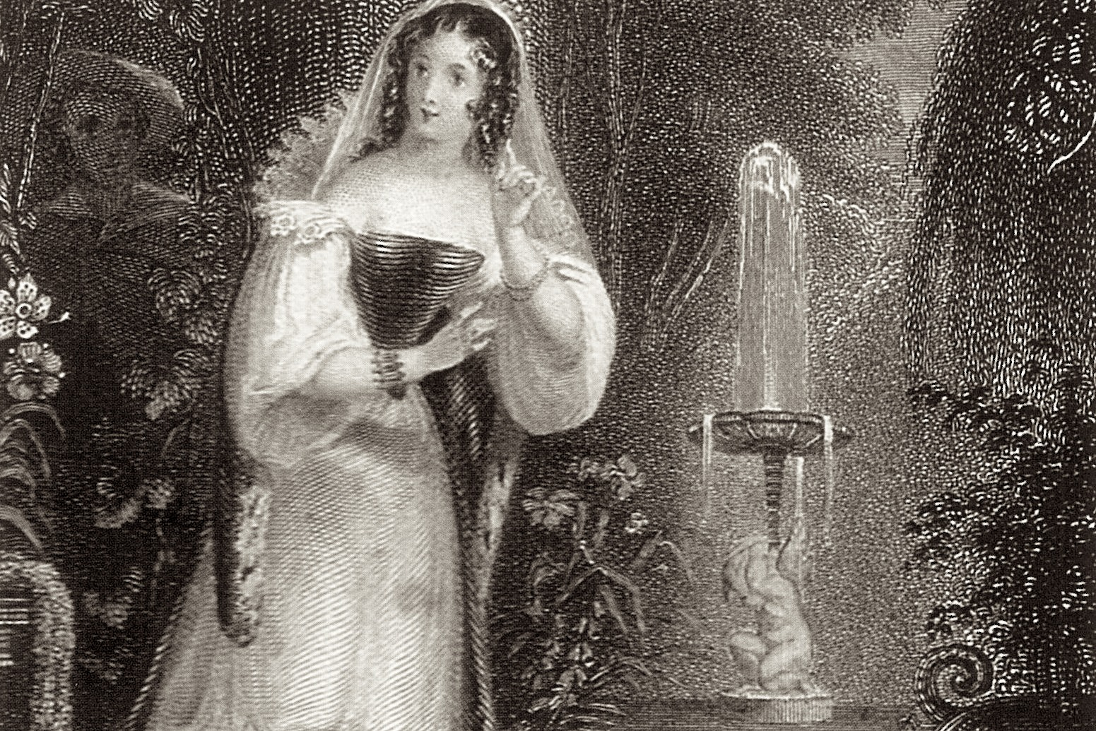 Parisina: Parisina and Ugo prior to their Act I duet